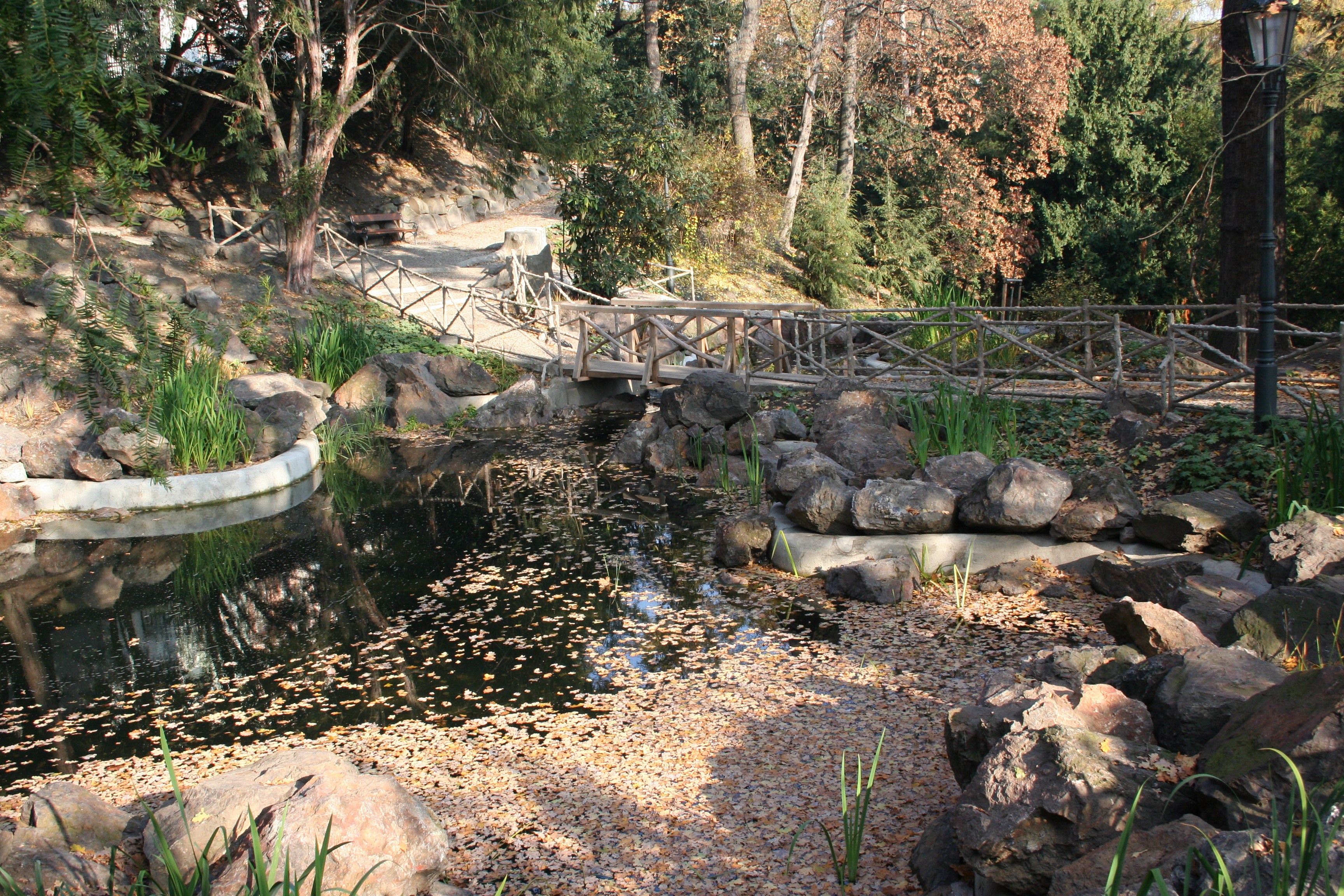 Prague, Gröbe Park